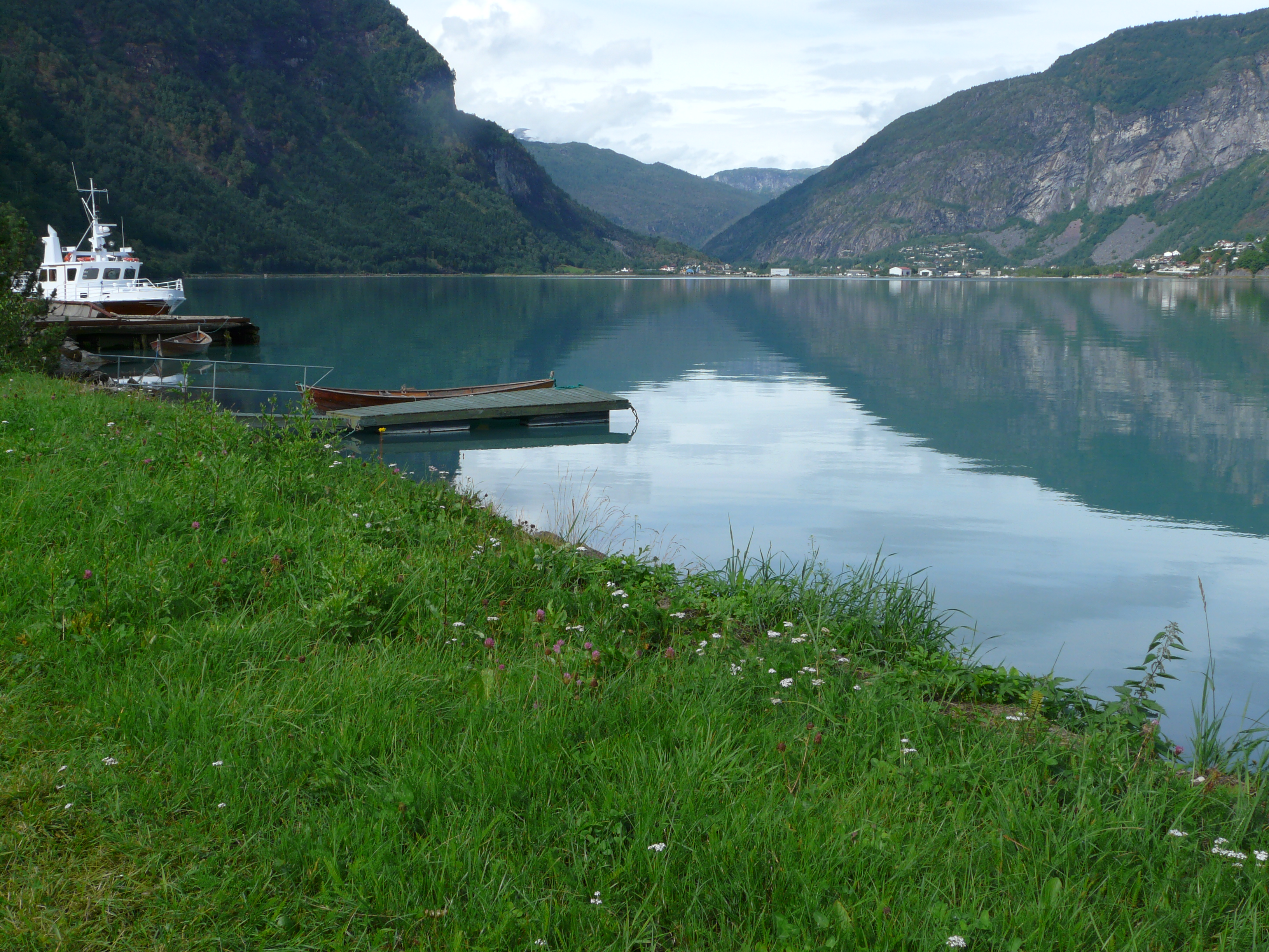 Gaupne